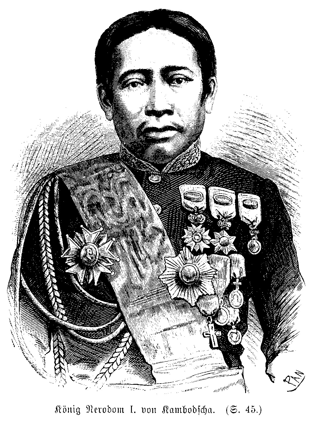 Norodom I. (here Nerodom), king of Cambodia, ornated, in november 1903, he died 1904